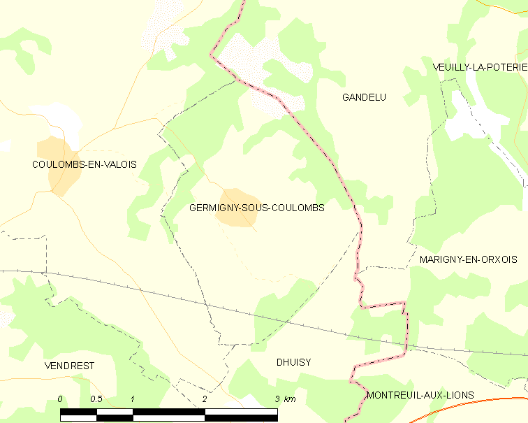 Map of French municipality Germigny-sous-Coulombs